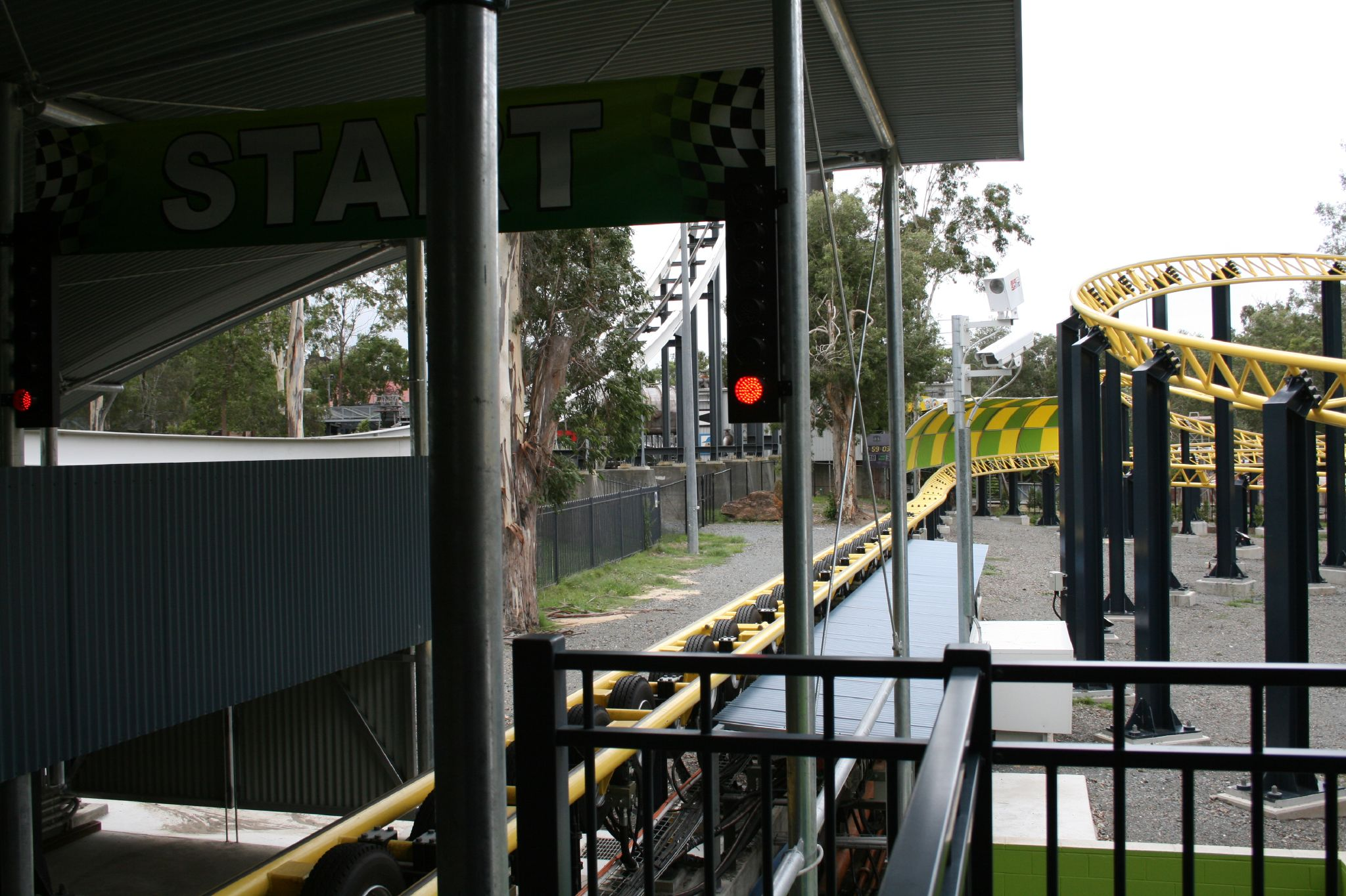 A view along the launch track of Mick Doohan's Motocoaster at Dreamworld. The ride is an Intamin Launched Motorbike roller coaster which launches riders using a series of drive tires.